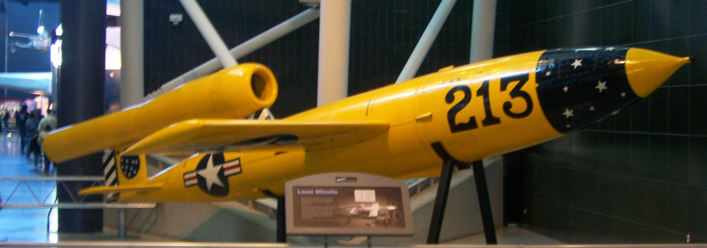 JB-2 -Loon Missile in Steven F. Udvar-Hazy Center Museum Information: Loon Missile, also called the JB-2 by the U.S. Army Air Forces, the Loon was an American copy of the German pulsejet-powered V-I ‘buzz bomb” of World War II. The long tube at the rear is the air-breathing pulsejet engine. Developed late in the war, the Loon was first test launched in October 1944. Loons could be launched from the ground, ships, or aircraft, but they were never used in combat. However, U.S. Navy and Army Air Forces personnel working with Loons gained invaluable experience in handling missiles. The program was canceled in 1950. The Loon was replaced by the faster and more powerful Regulus missile. Length: 8.2 m (27 ft) Weight, loaded: 2,700 kg (6.000 lb) Weight, warhead: 998 kg (2,200 lb) Range: 242 km (150 mi) Thrust: 2,224 N (500 lb) Propellant: gasoline Manufacturer: Ford Motor Co